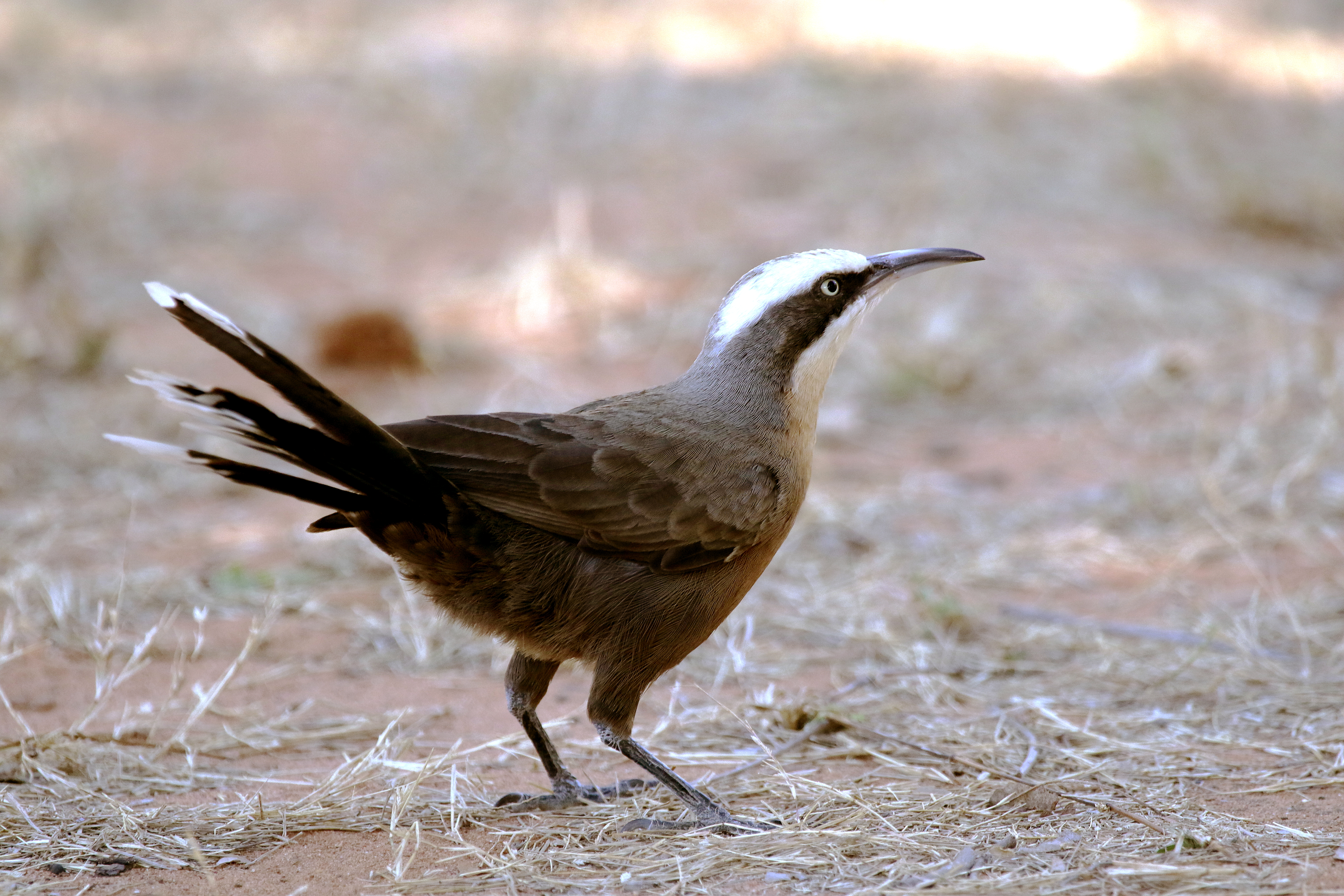 Grey-crowned Babbler (Pomatostomus temporalis) at Katherine, Northern Territory, Australia.